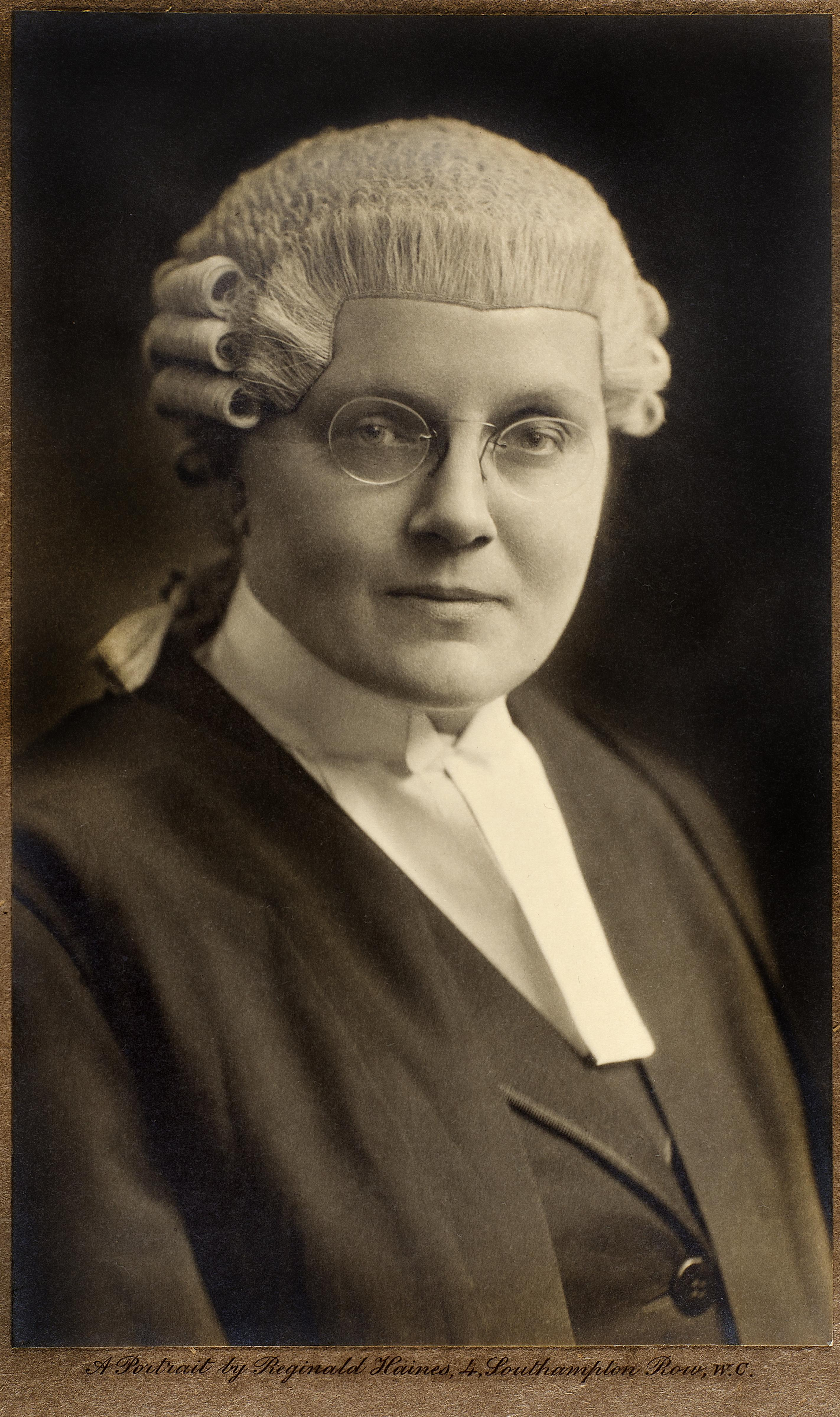 7HLN/E/13